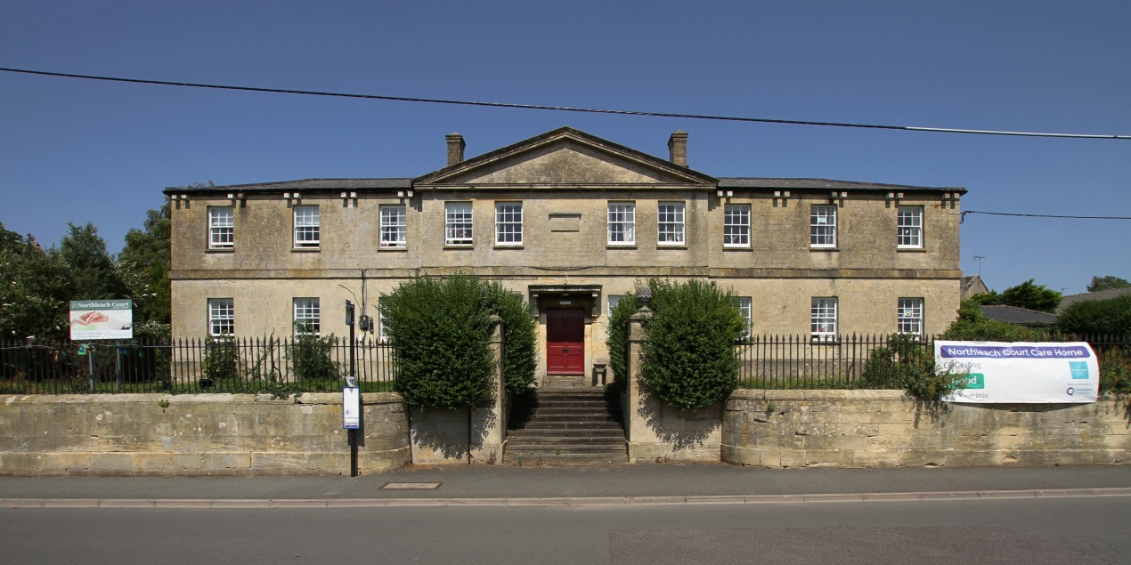 Former workhouse and geriatric hospital in East End, Northleach, Gloucestershire, seen from south-southwest. It is now a private care home.